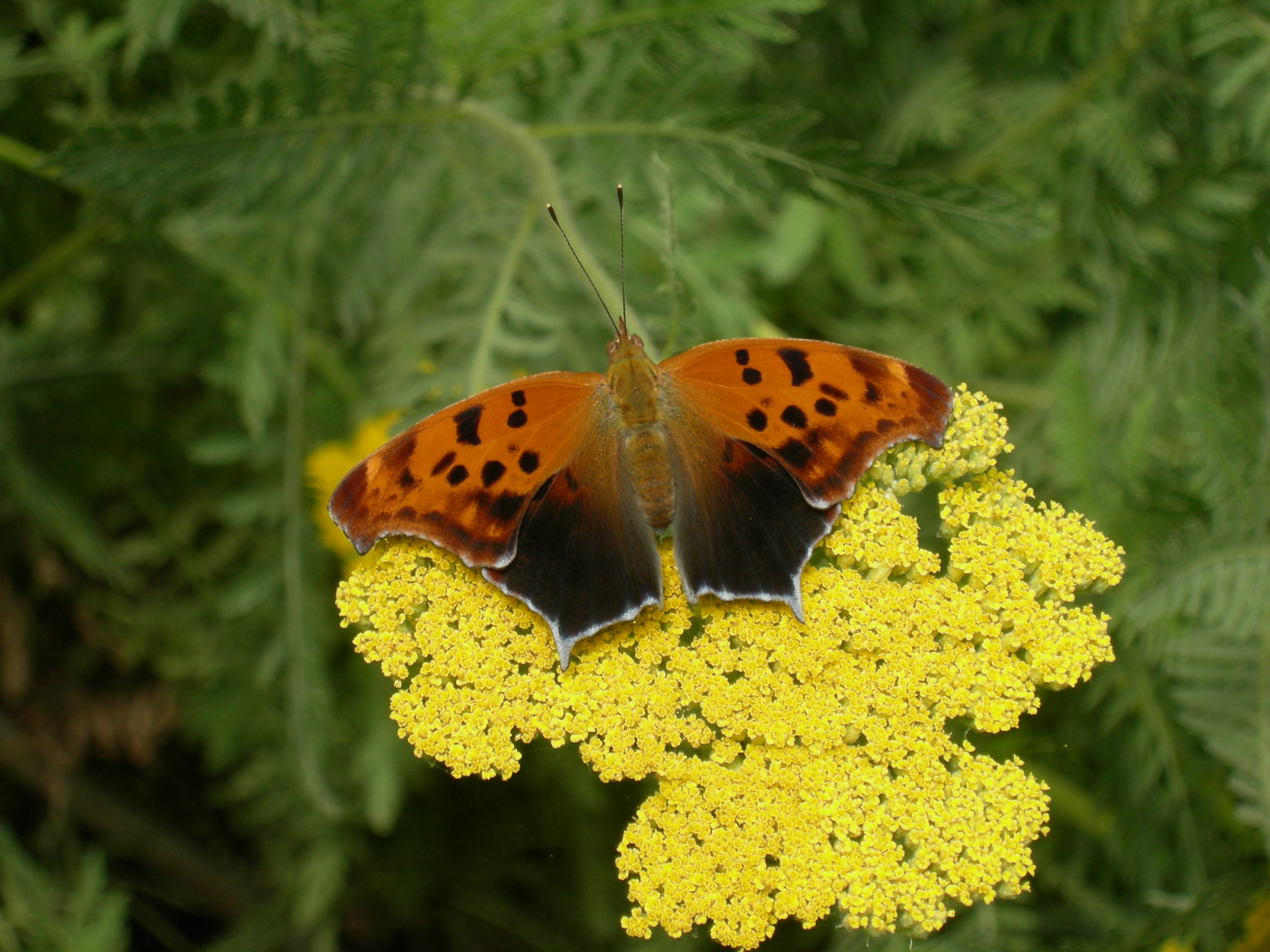 Butterflies & Blooms exhibit, Woodland Park Zoo, Seattle, Washington. Question mark butterfly (Polygonia interrogationis)